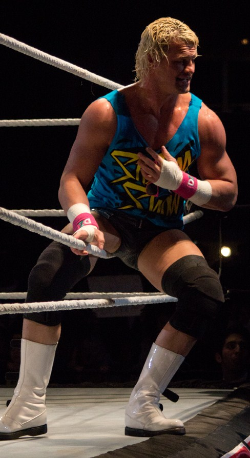 Dolph Ziggler during a WWE house show on February 2, 2013 in Montgomery, Alabama.